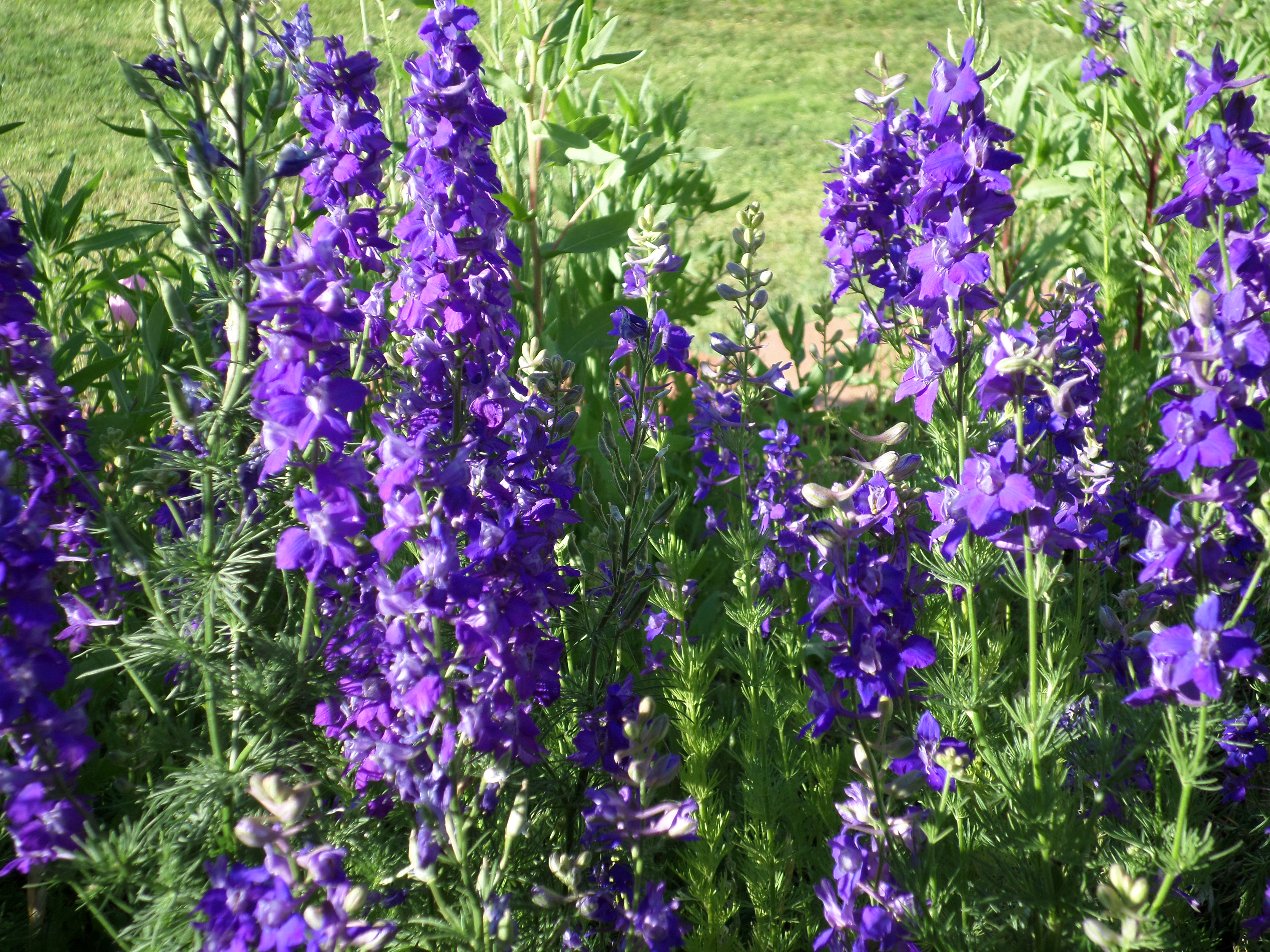 larkspur